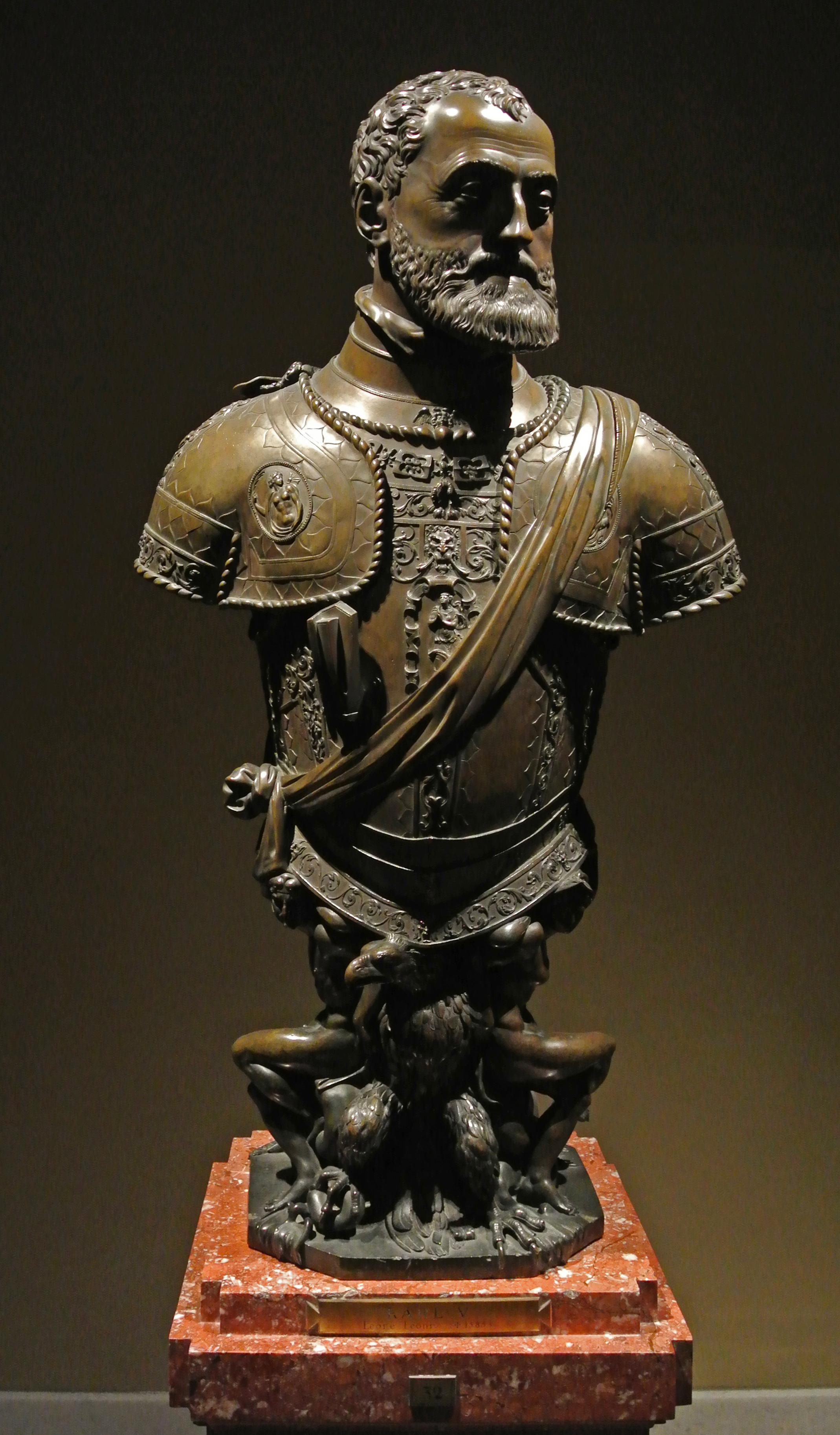 Bust of Holy Roman Emperor Charles V (1500–1558)